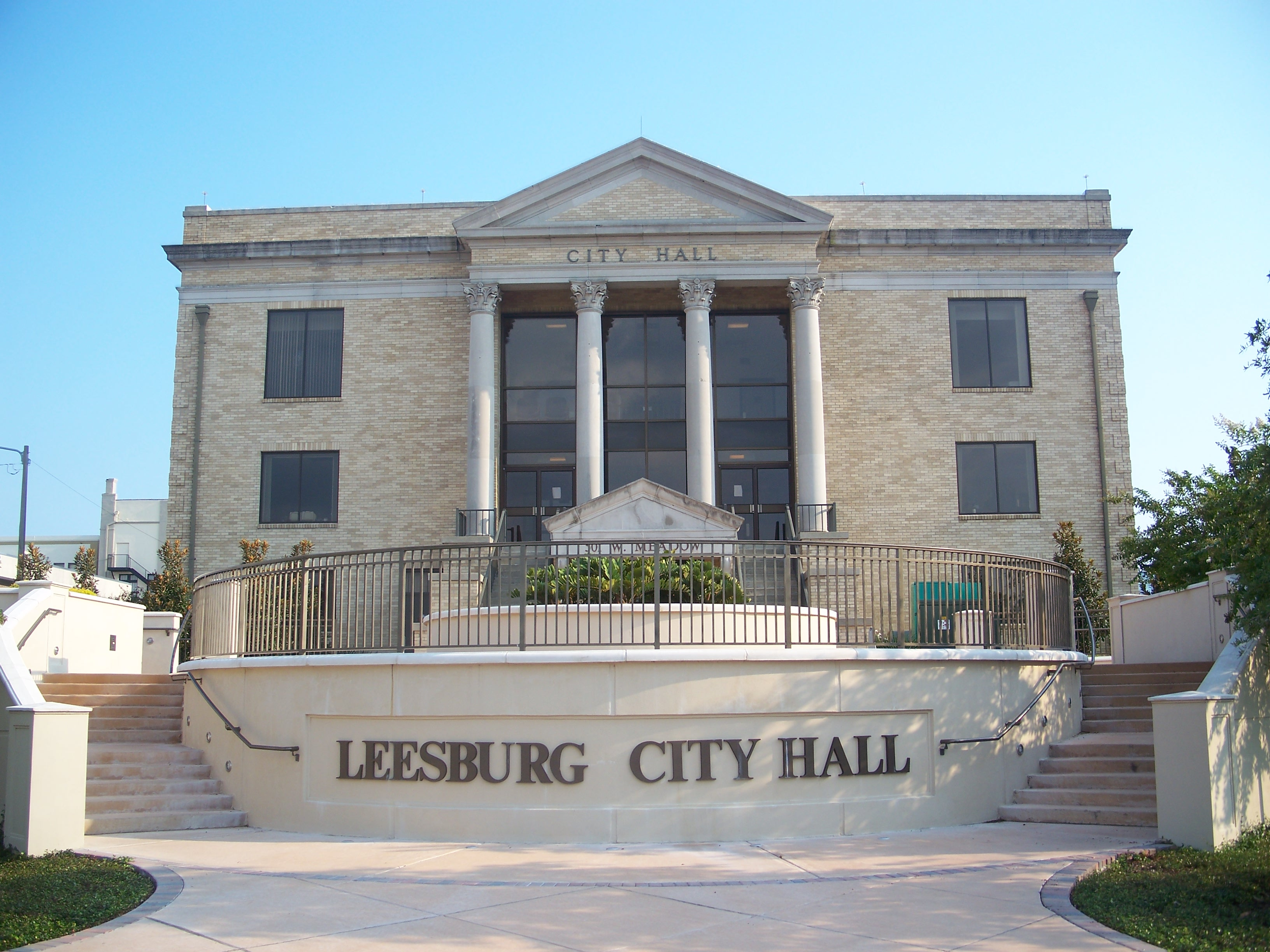 Leesburg, Florida: City hall.